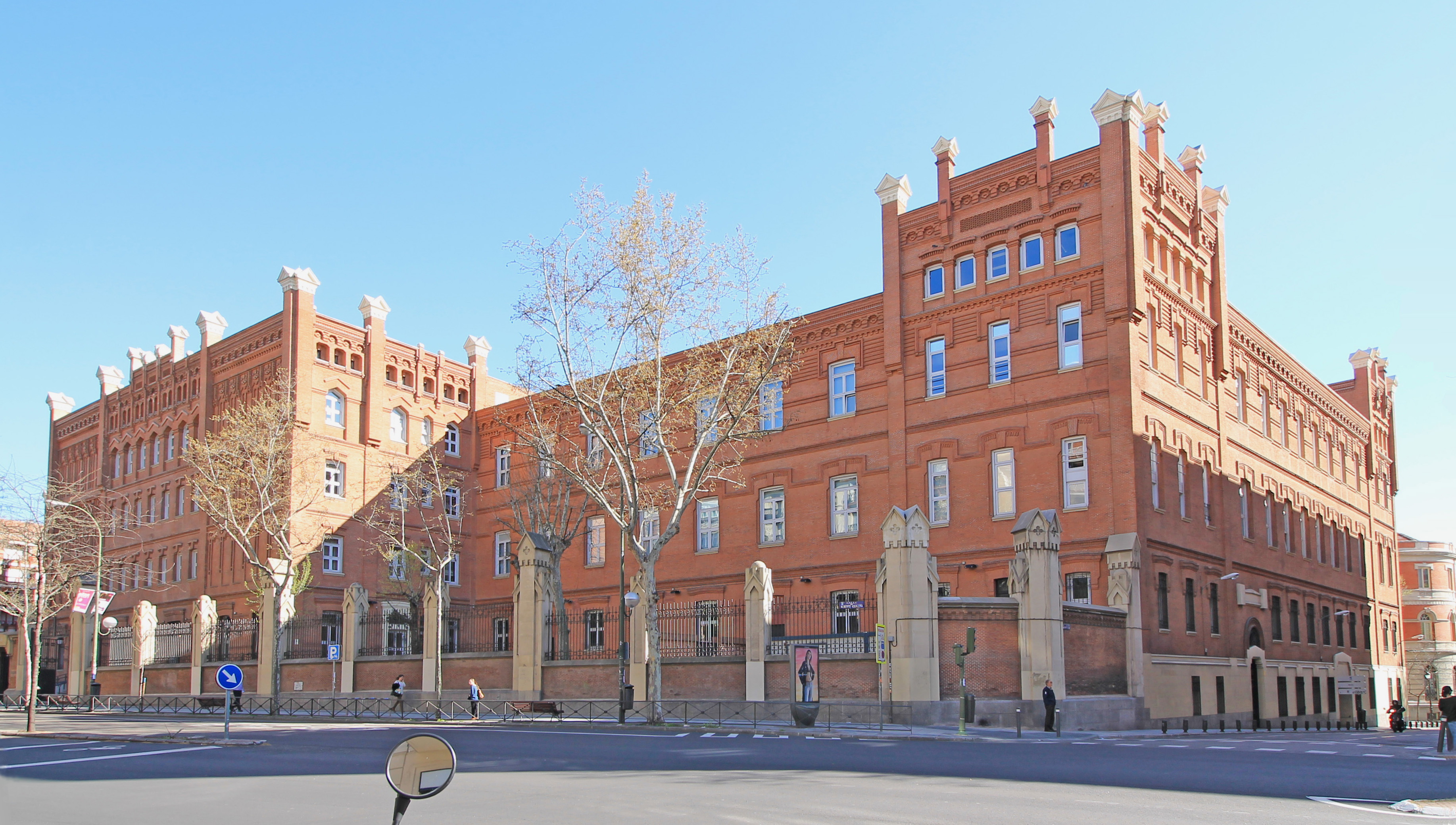 Façade of ICADE building in Madrid (Spain).